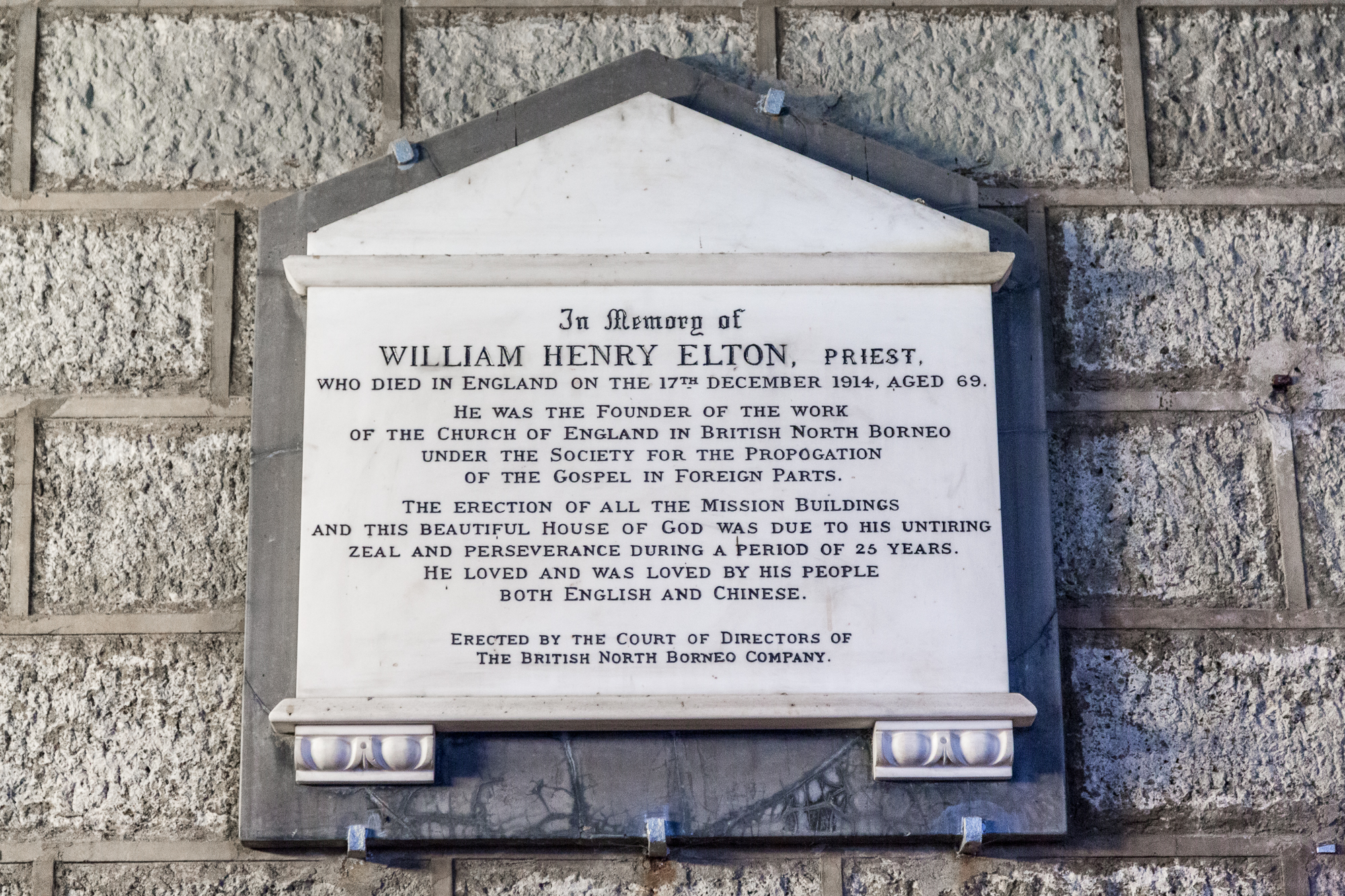 Sandakan, Sabah: Gereja St. Michael in Sandakan, Memorial Stone for William Henry Elton